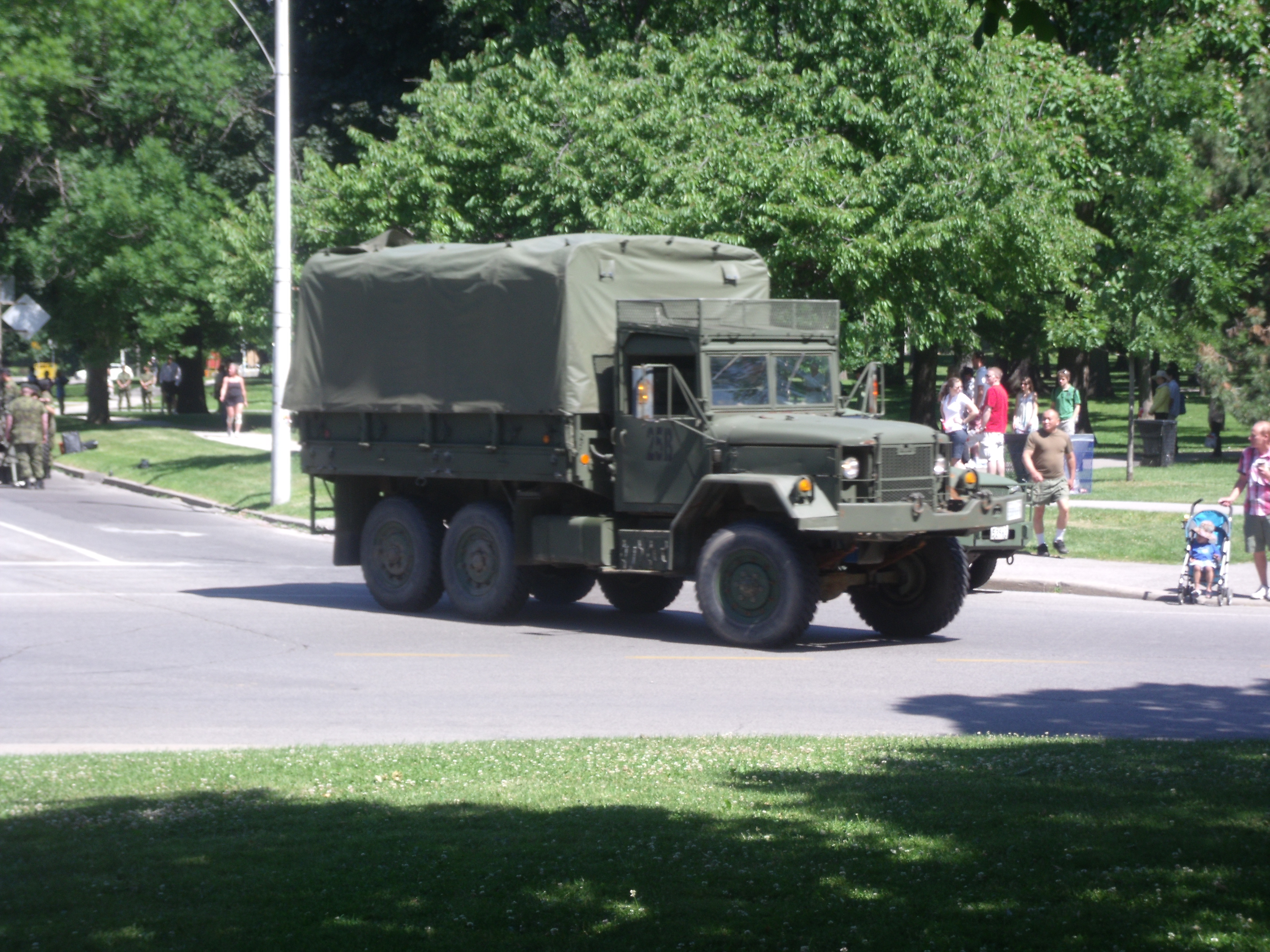 7 Toronto Regiment preparing to fire the 21-gun-salute at Queen's Park on Canada Day